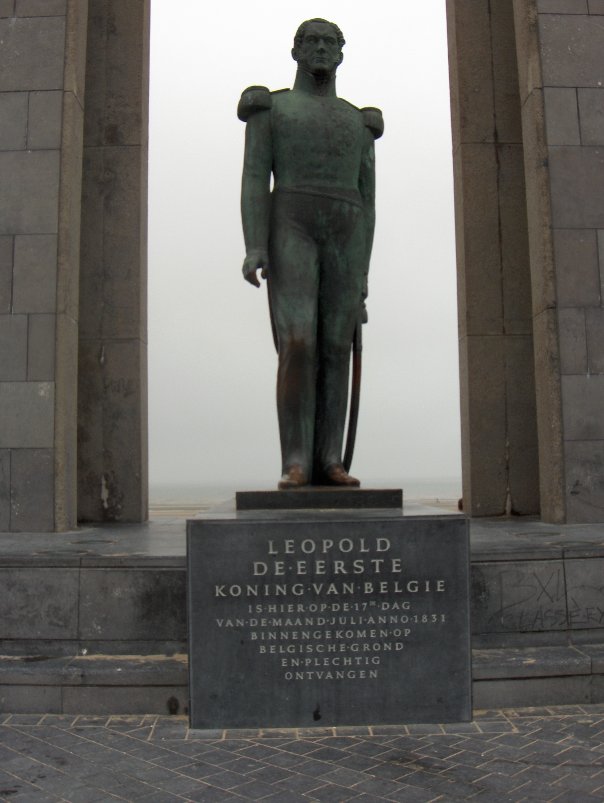 Statue of Leopold I (king of Belgium) at De Panne (Belgium).